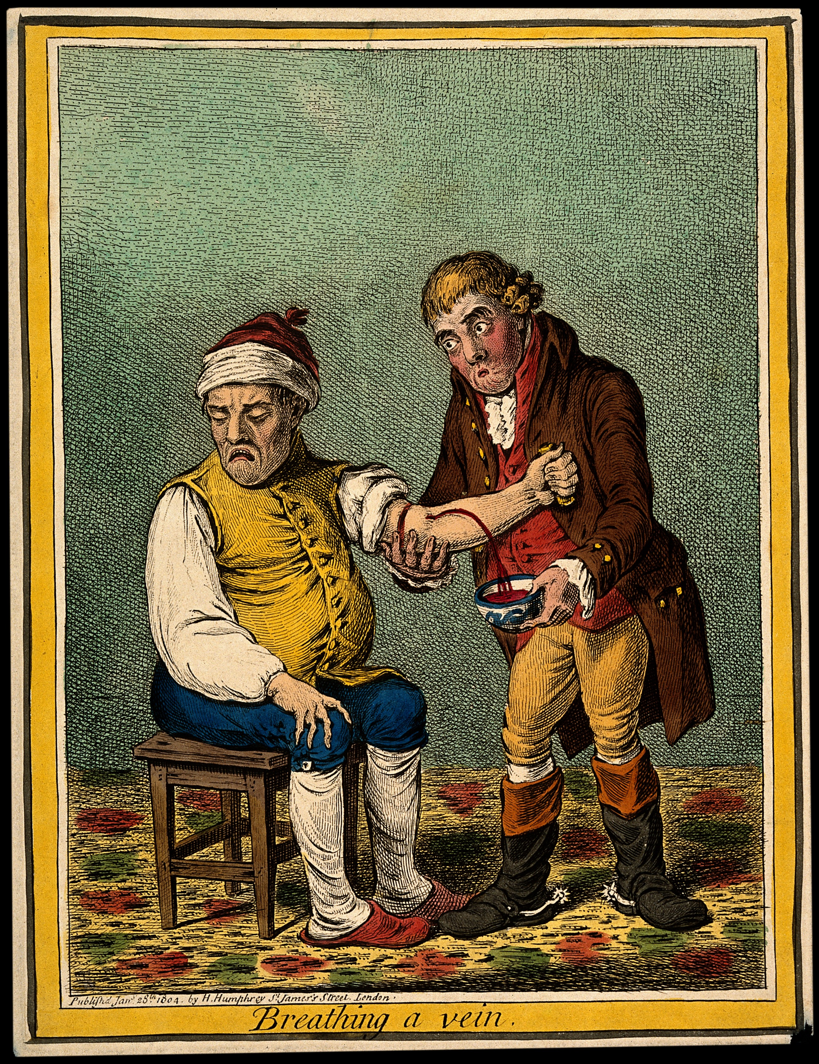 An ill man who is being bled by his doctor. Coloured etching by J. Sneyd, 1804, after J. Gillray. Iconographic Collections Keywords: Physicians; Bloodletting; James Gillray; costume - history - 19th centu; Patients; Caricatures; Blood; Phlebotomy; etchings; John Sneyd